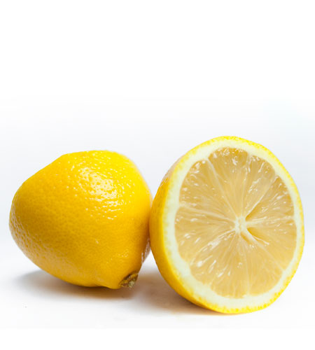 Lemon